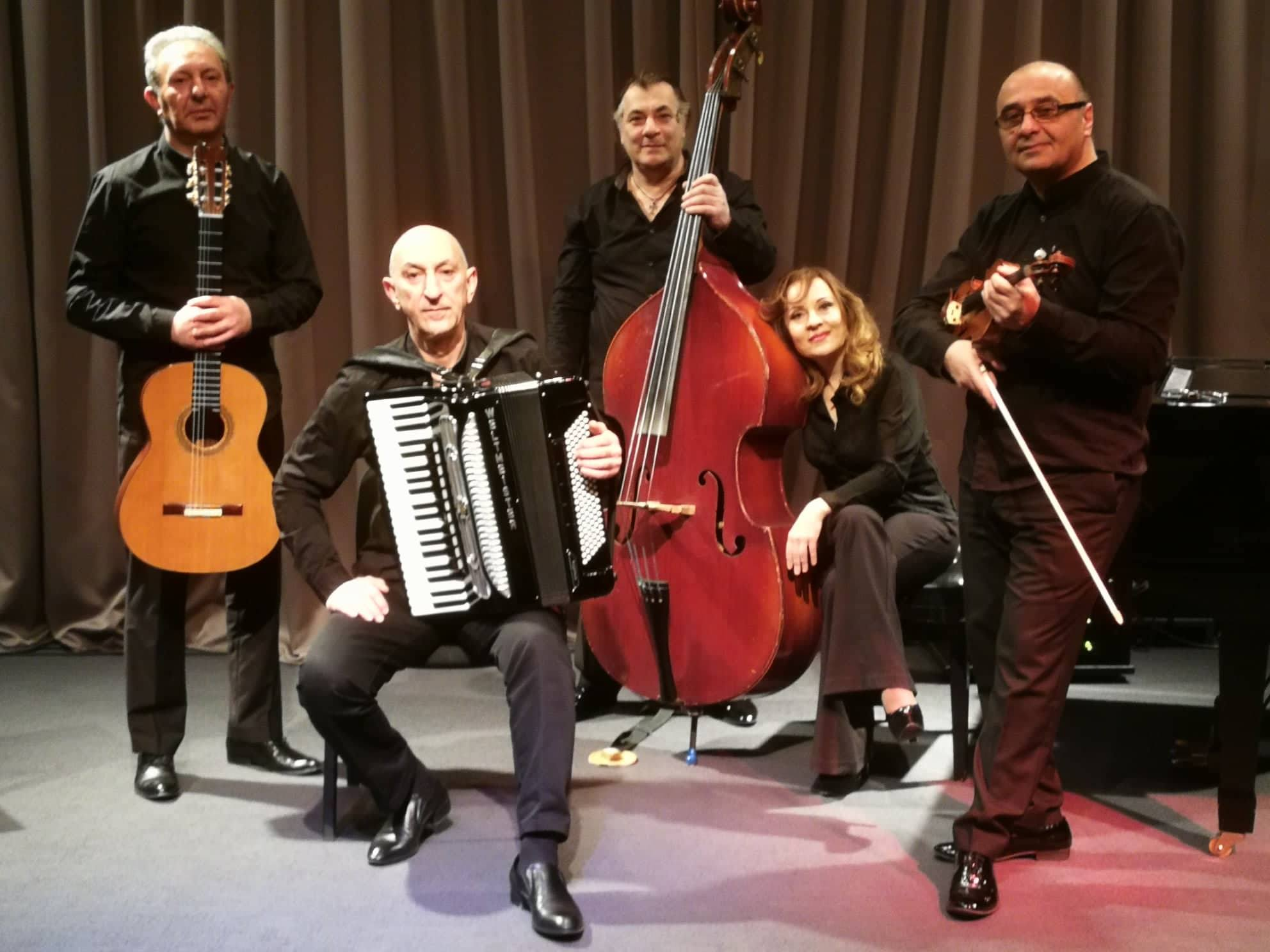 CADENCE MUSICIANS: Jaghatspanyan Hakob (Guitar) Khachumyan Varazdat (Violin) Yeganyan Meruzhan (Accordion) Mikayelyan Sofi (Piano) Amiryan Gurgen (Contrabass)